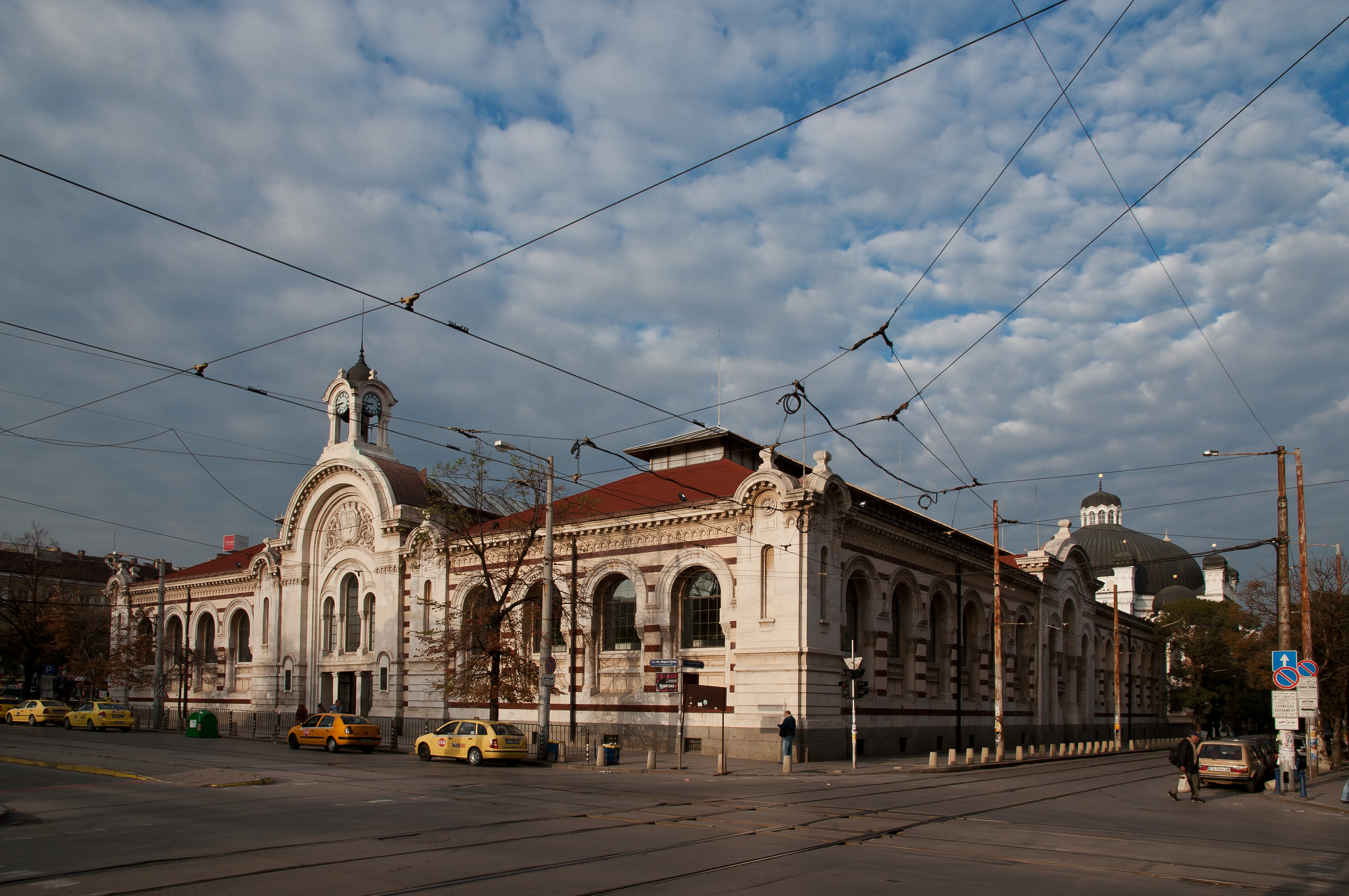 Central Market Hall in Sofia, Bulgaria. Opened in 1911, designed by the architect Naum Torbov.